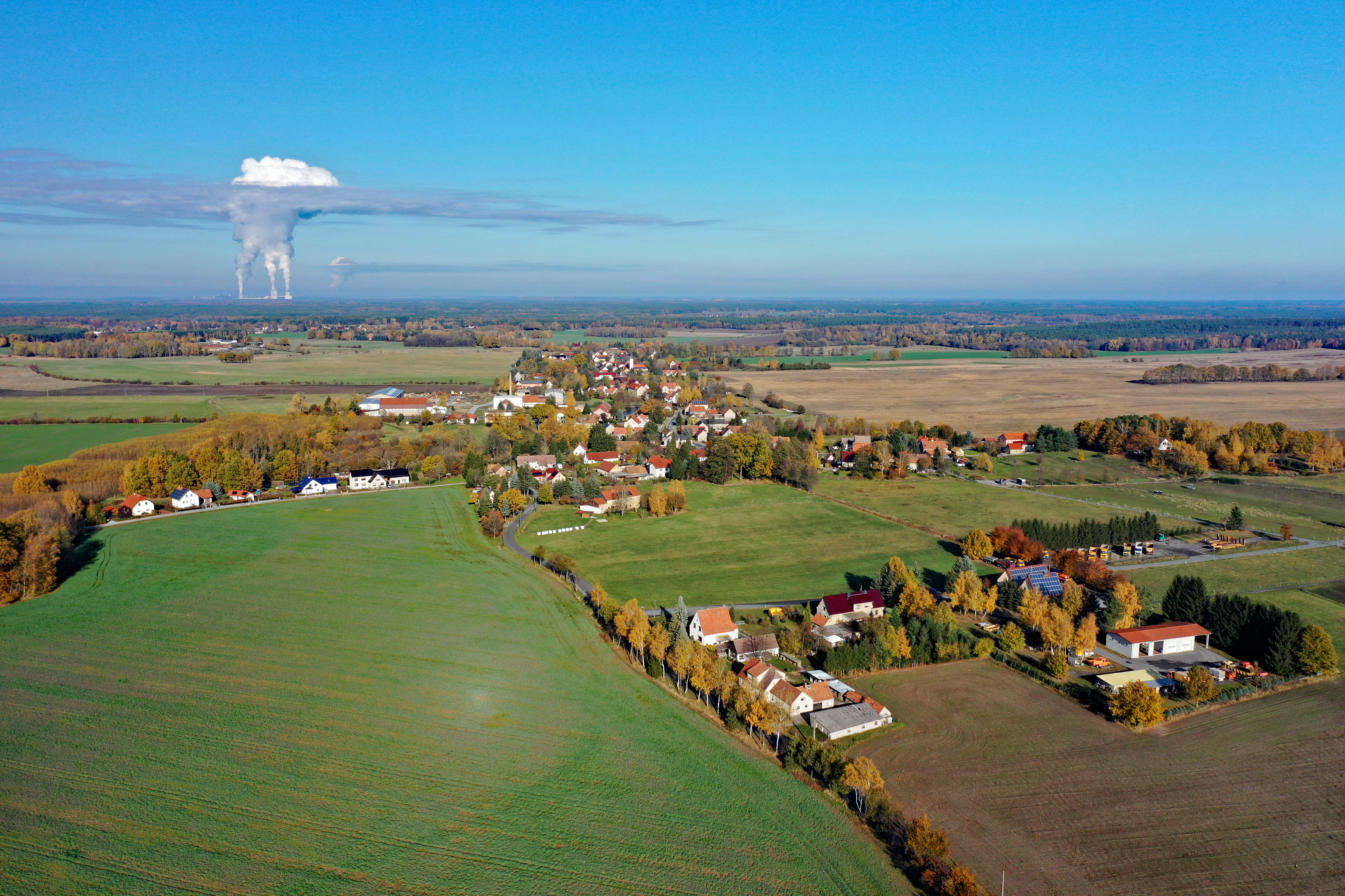 Weigersdorf (Hohendubrau, Landkreis Görlitz, Saxony, Germany) Hornjoserbsce: Powětrowy wobraz Wukrančic